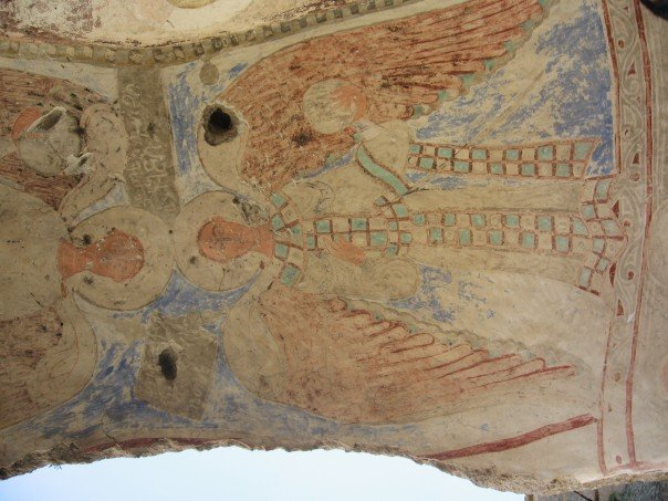 Fresco on the ceiling of a cave church outside Ani.